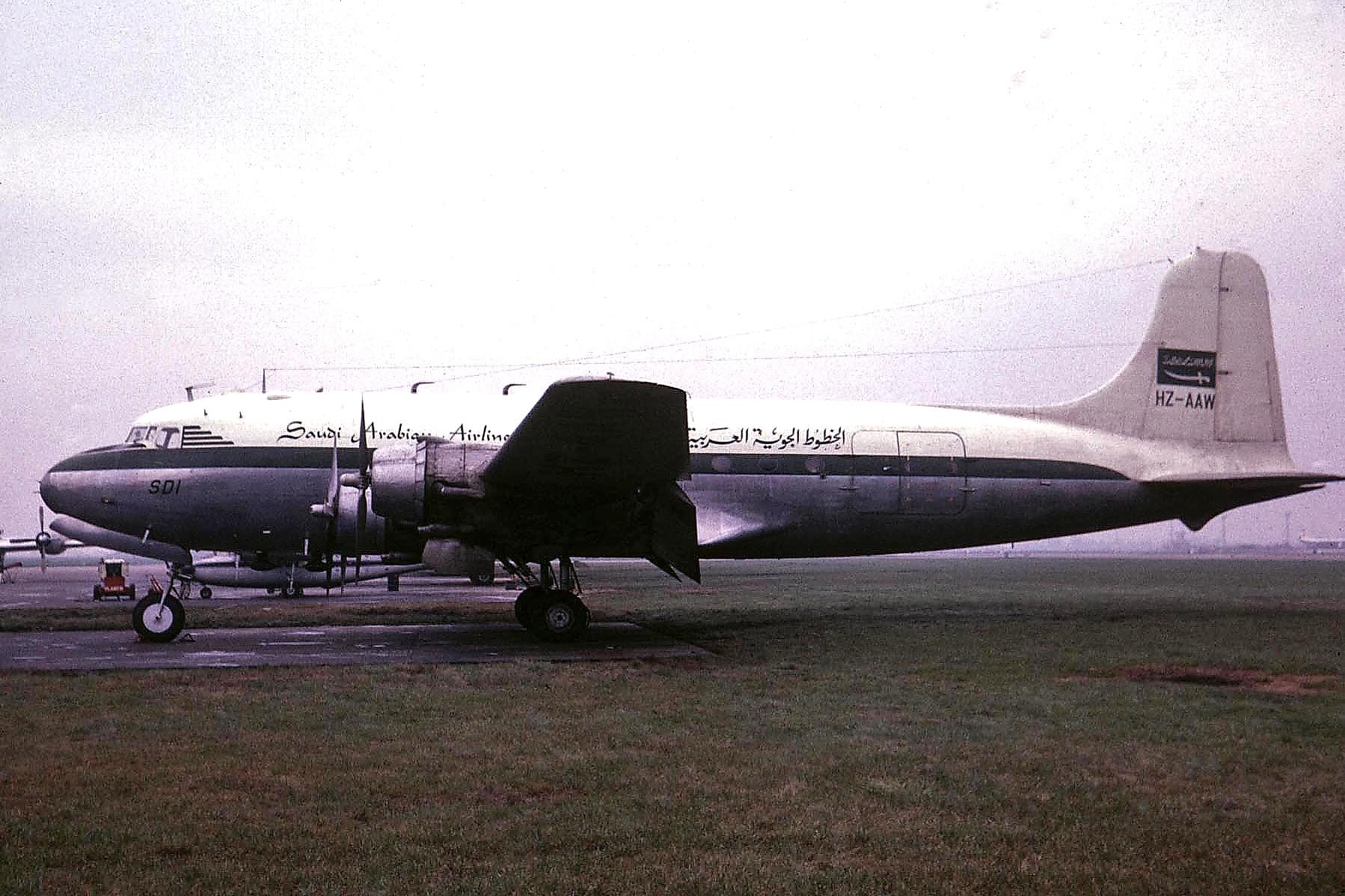 HZ-AAW was one of three C-54's bought from Saudi Arabian by British Eagle after they had taken over Starways. Only two entered service, G-ASPM & G-ASPN (see earlier). HZ-AAW became G-ASRS and was sold on to Avions Fairey in Belgium as OO-FAI in Aug-64